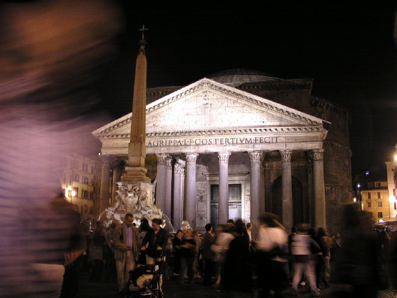 The White Night in Rome, when everyone comes to the streets and everything is open (museums, shops, bars, restaurants)